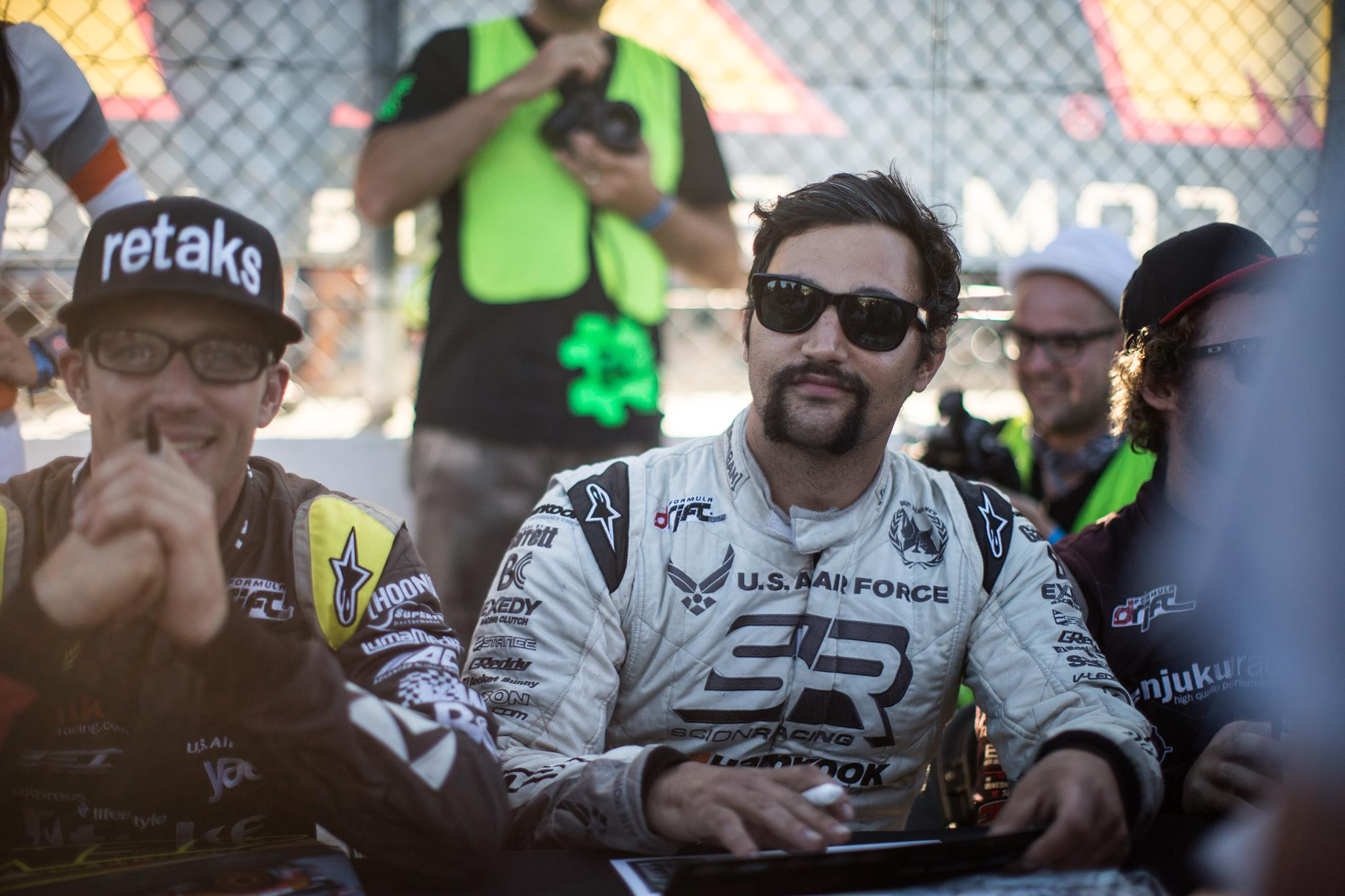 Tony Angelo at the autograph table during a Formula Drift event at Evergreen Speedway